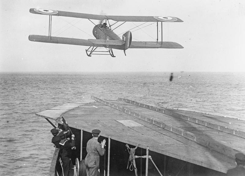 Photography